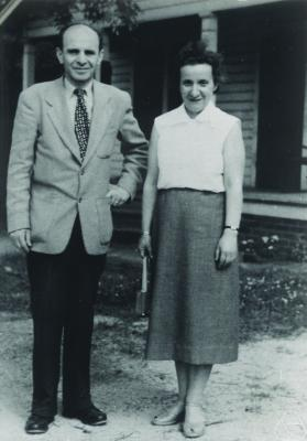 Mathmatican Alfred Theodor Brauer in Chapel Hill